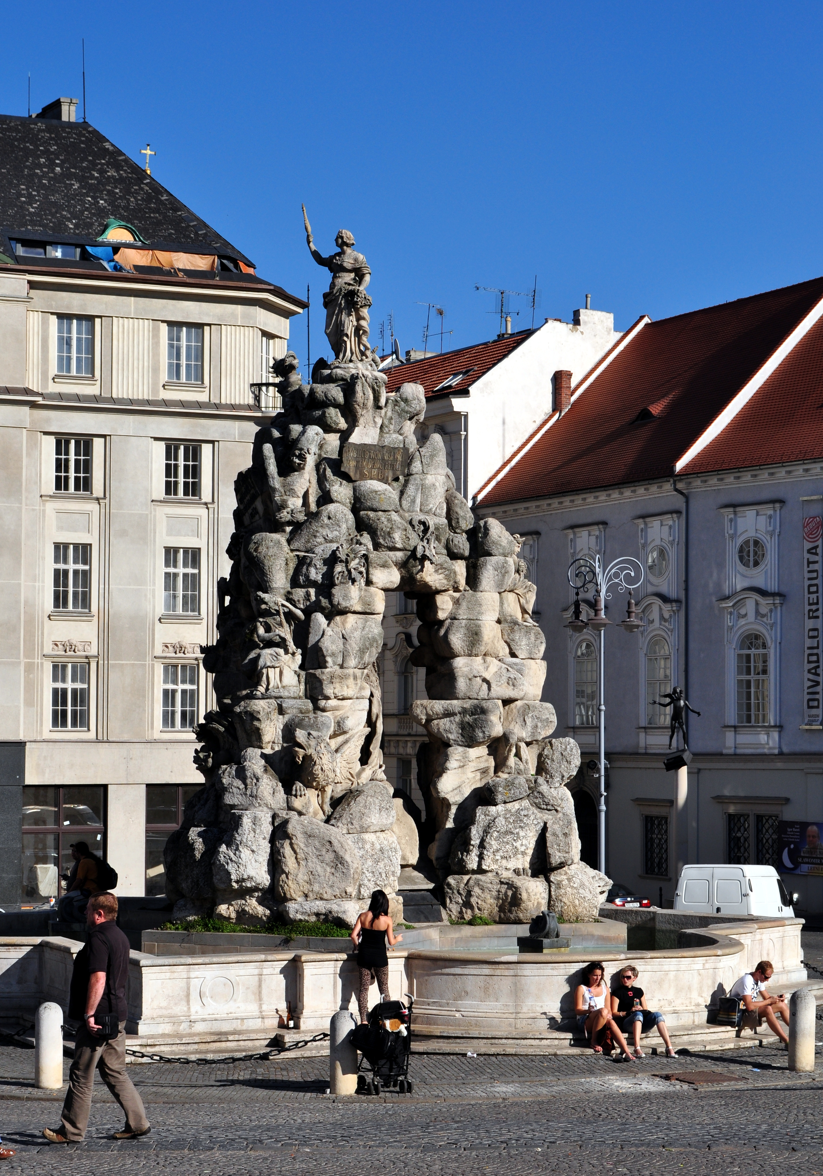 The Parnas Fountain in Brno, Moravia, Czech Republic, European Union